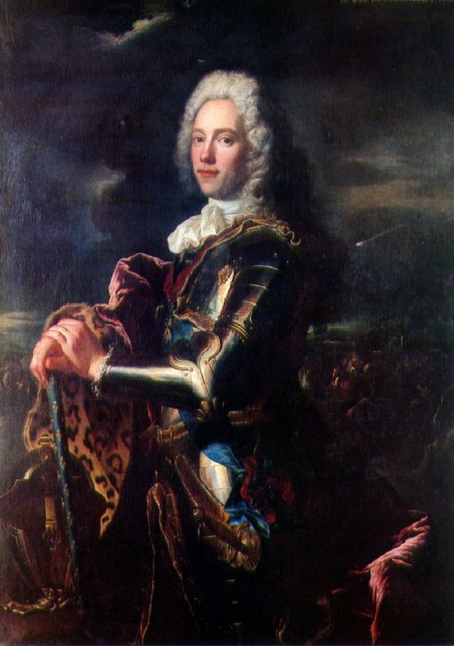 French school, 18th century copy of a portrait by Hyacinthe Rigaud